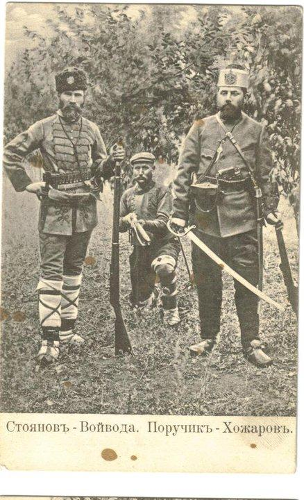 3 bulgarian "chetniks"